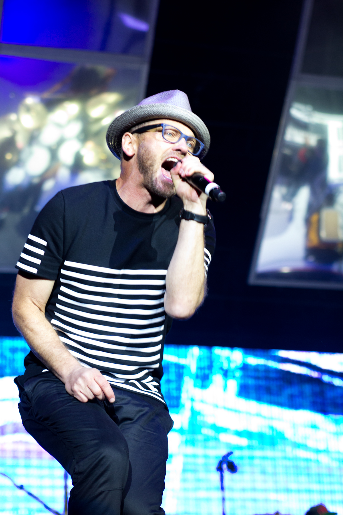 TobyMac headlines the Wal Mart Ampitheatre in Rogers, AR on October 4, 2015.